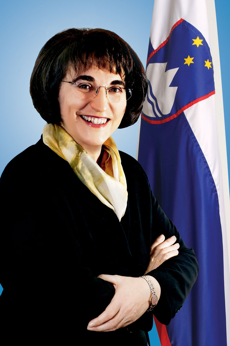 The first female defence minister of the Republic of Slovenia dr. Ljubica Jelušič